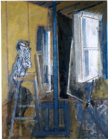 Edmond Boissonnet